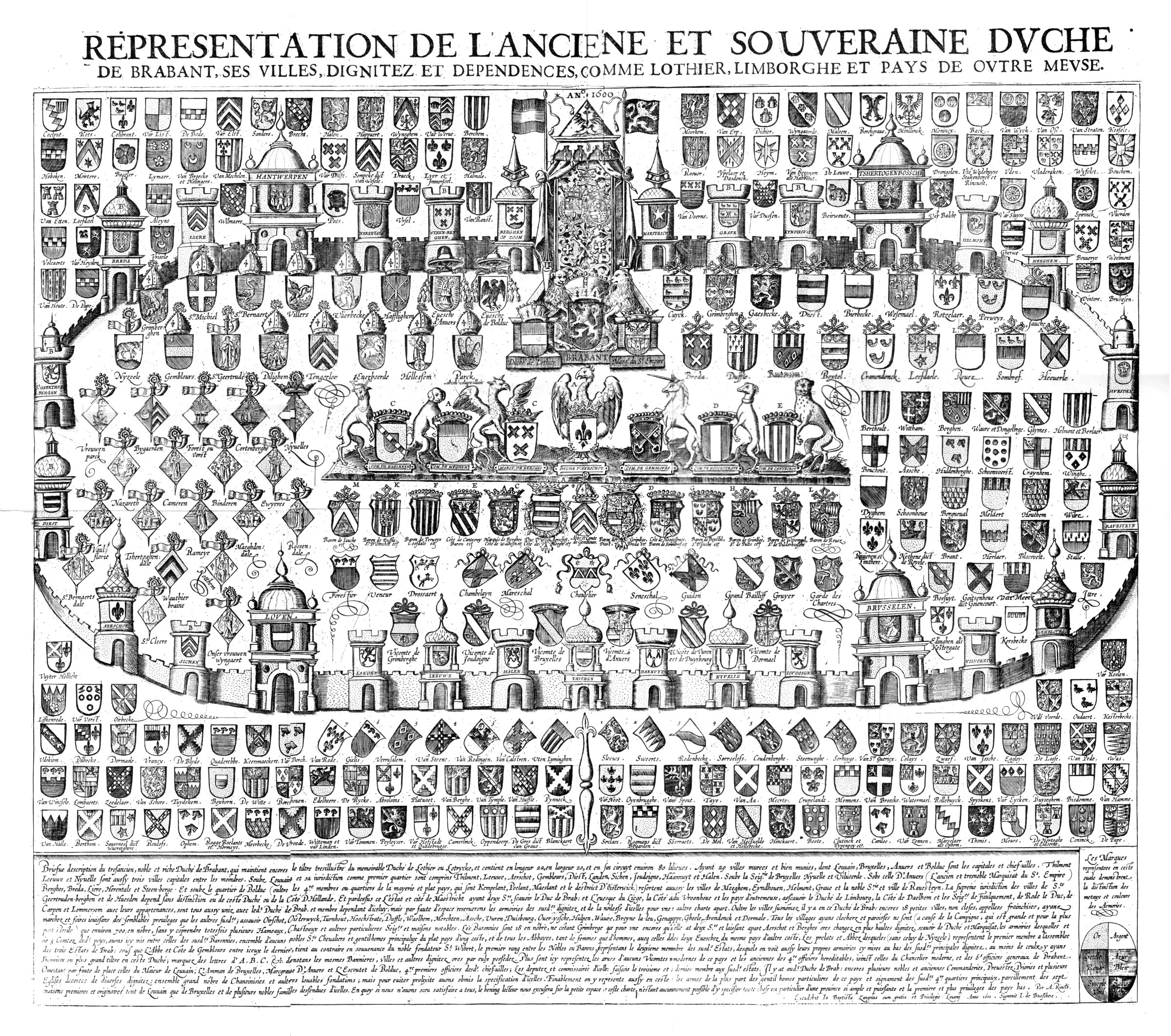 Scanned armorial chart of Zangrius